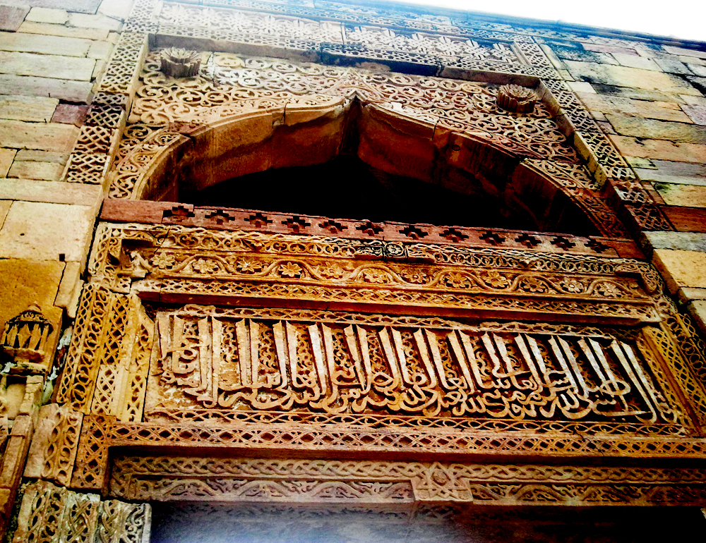 Adhai din Ka Jhopra gate